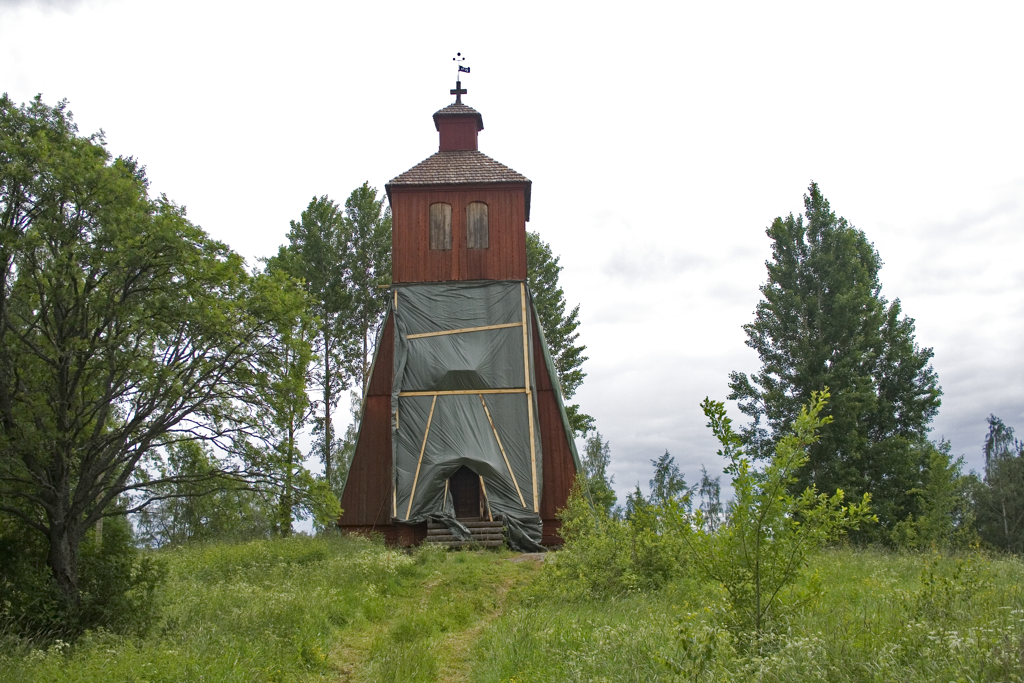 St Marian's church in Satamala